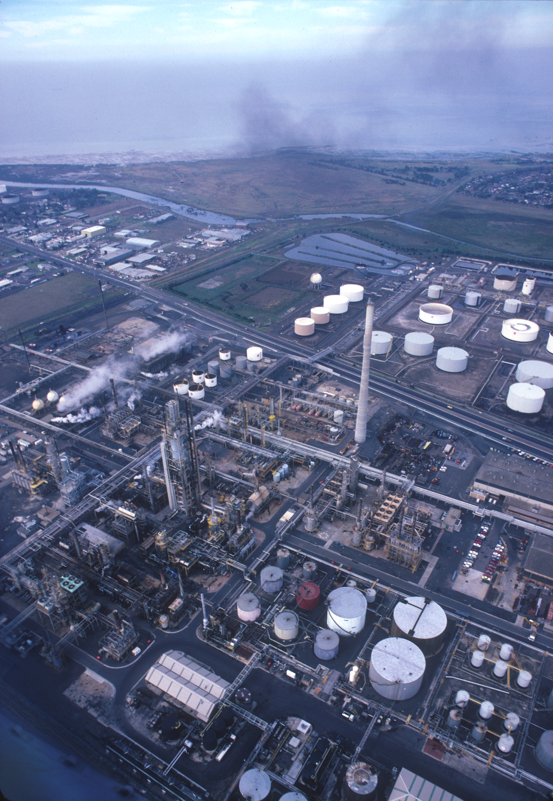 Aerial view of a chemical refinery, Altona, Victoria